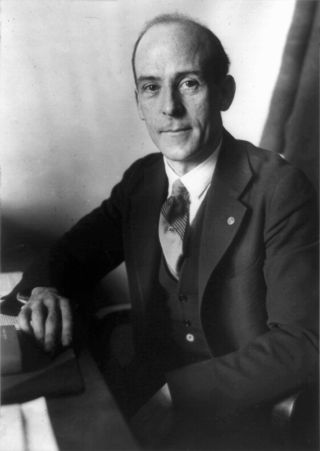 William P. Connery, Jr., U.S. Congressman from Massachusetts